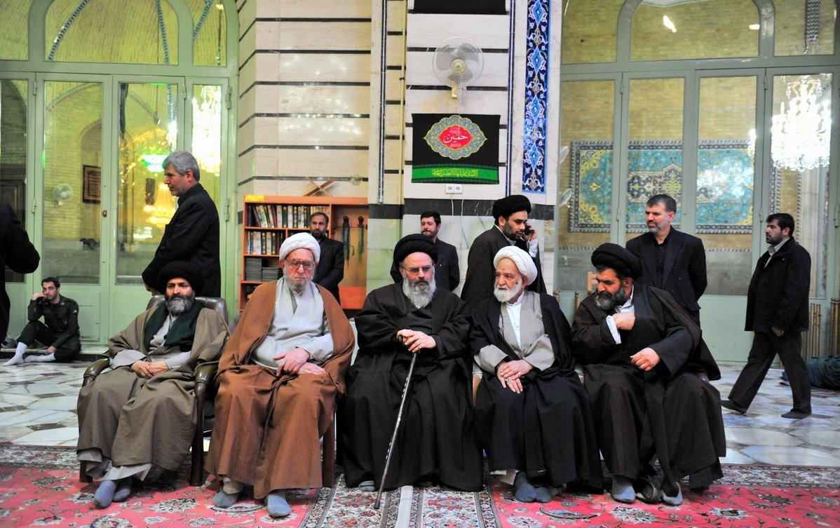 Ebrahim Amini (second from left to right) and Seyyed Mohammad Mousavi Bojnourdi (in the centre).